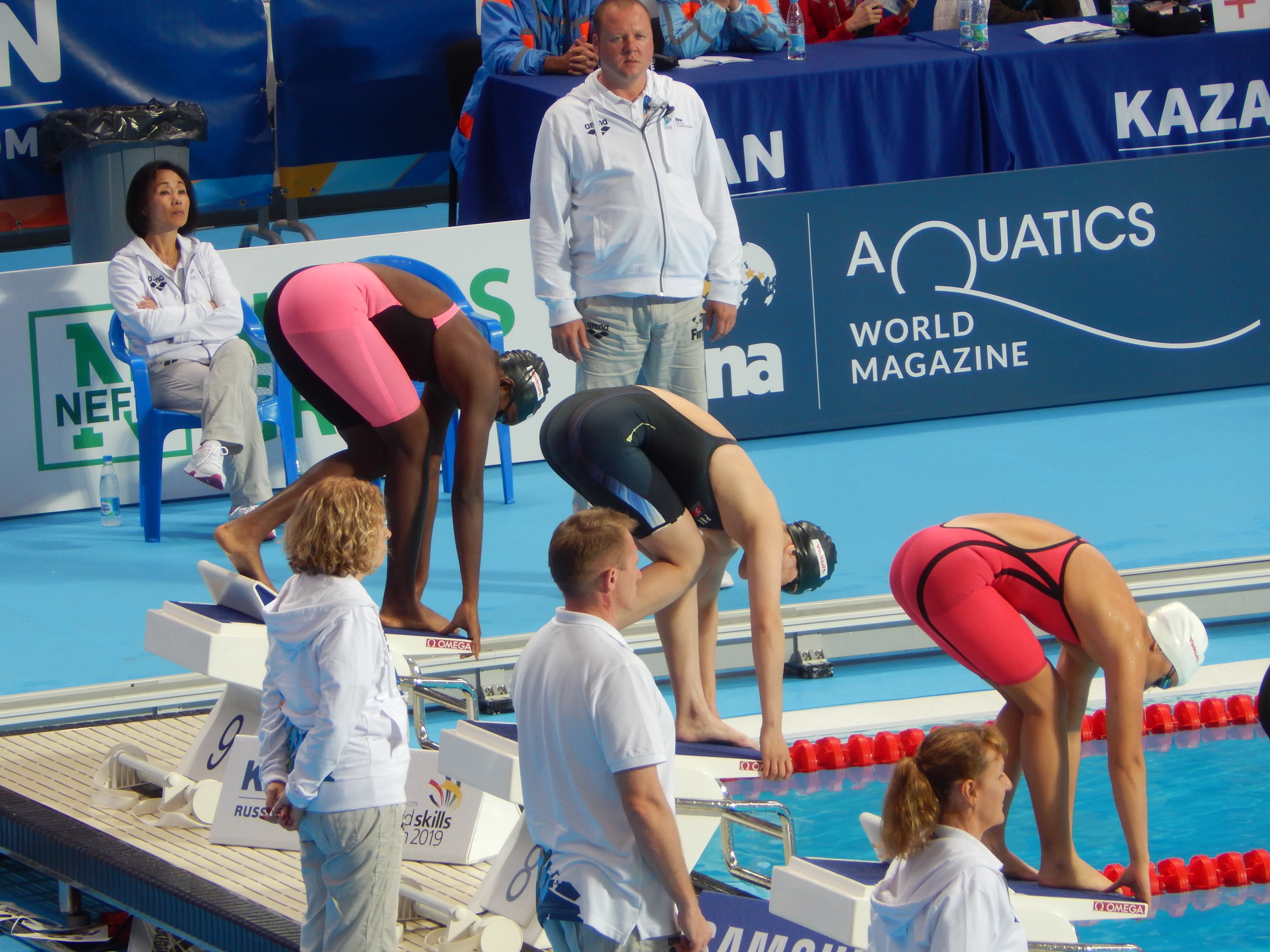 Lane 9: LETER Evita Elisabeth SUR Lane 8: SIN Jin Hui PRK Lane 7: ATEF Mai EGY